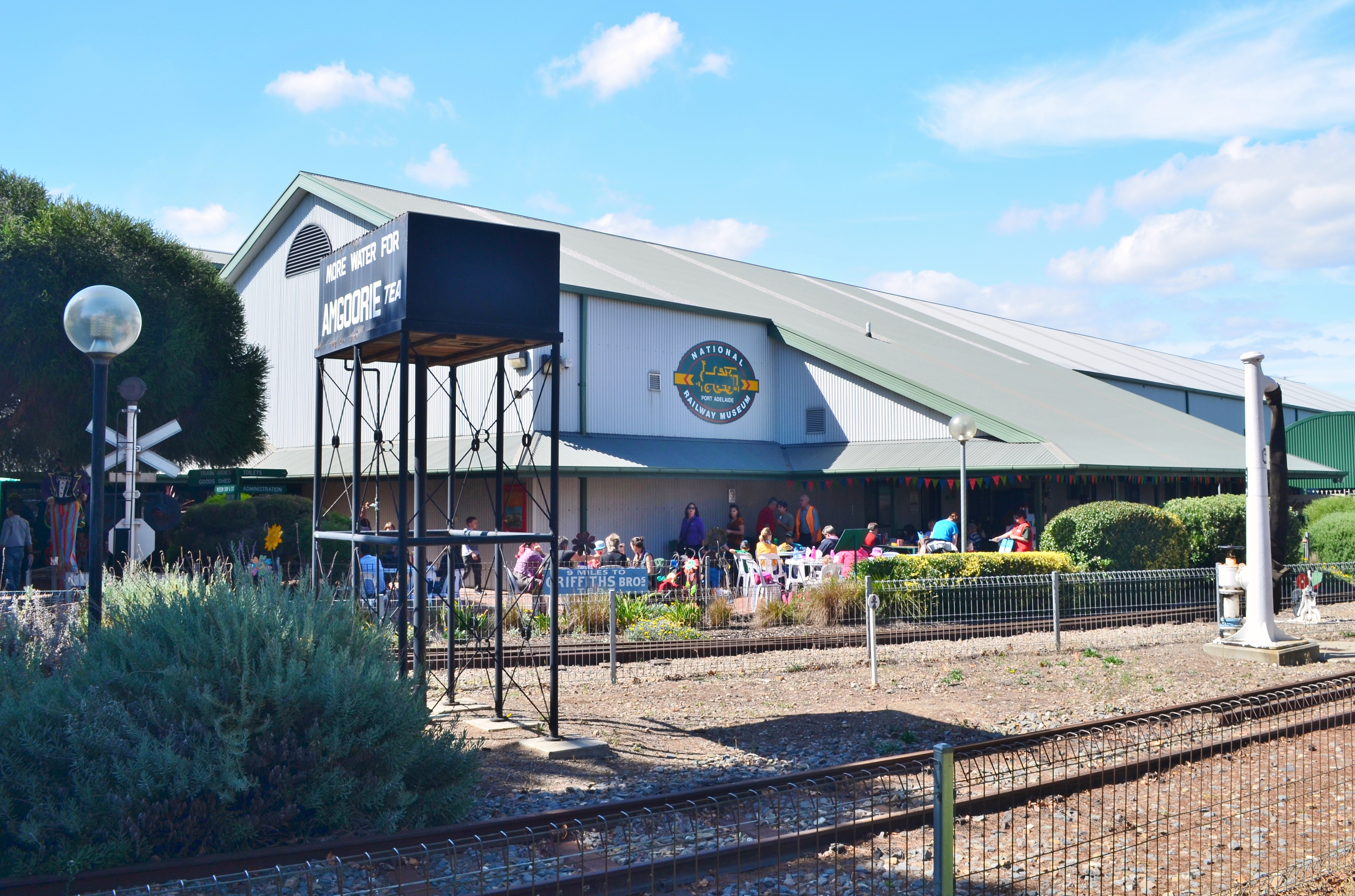 A view of the Ron Fitch Pavilion, National Railway Museum (Port Adelaide), South Australia.